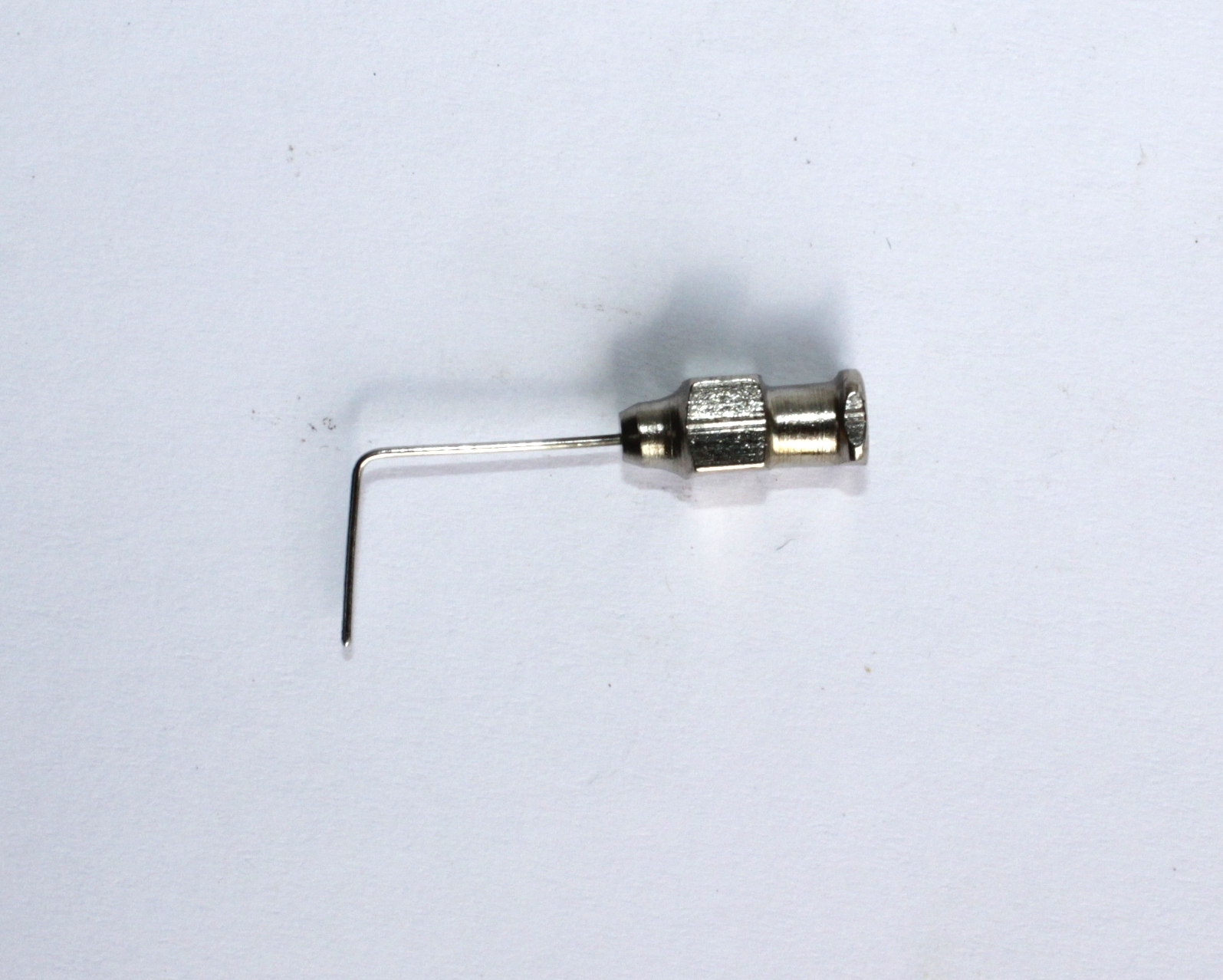 Huber`s needle